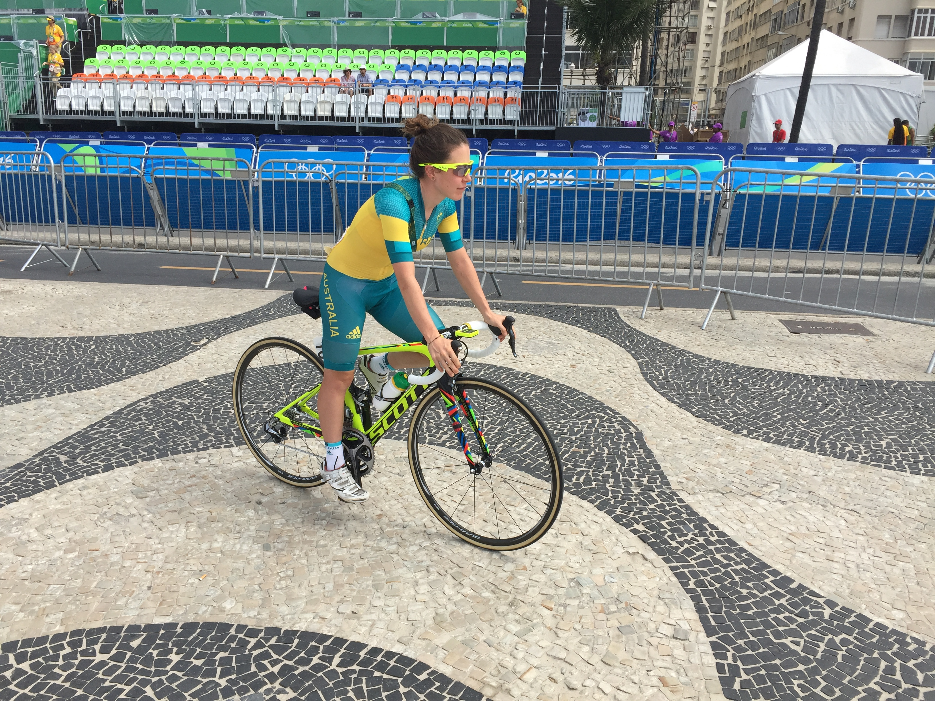 Women's road race - Rio 2016